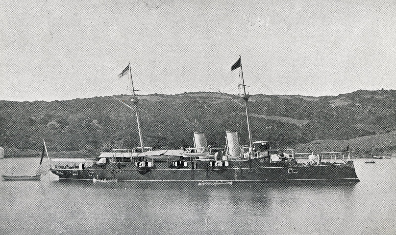 The cruiser proted Alfonso XIII, was launched in 1891 and retired in 1900.